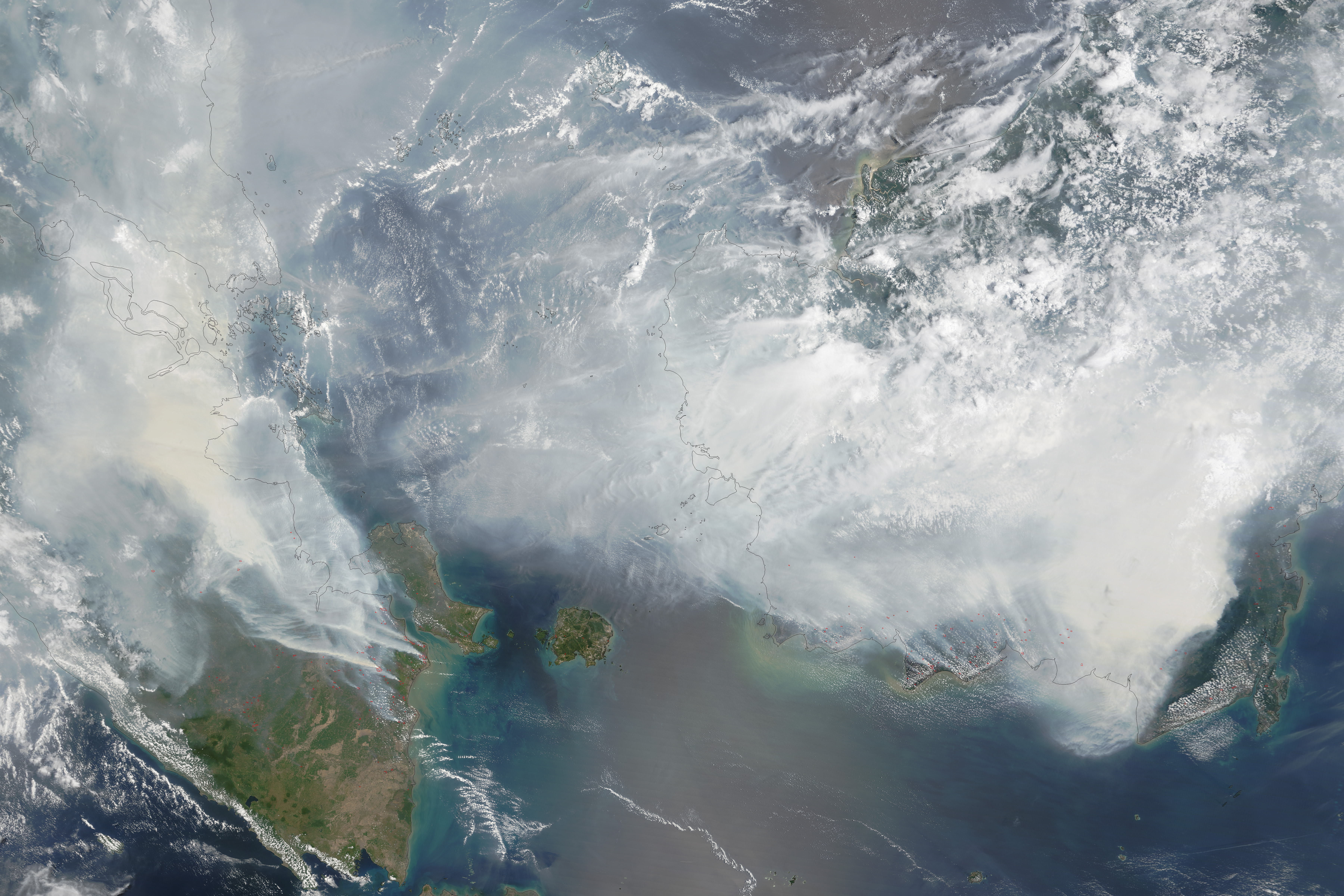 As seen in this September 24 image from the Moderate Resolution Imaging Spectroradiometer (MODIS) on NASA’s Terra satellite, Red outlines indicate hot spots where the sensor detected unusually warm surface temperatures associated with fires. Thick gray smoke hovers over both islands and has triggered air quality alerts and health warnings in Indonesia and neighboring countries. Visibility has plummeted. Caption by Adam Voiland.